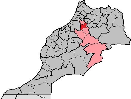 Location of the province El Hajeb within the region Meknès-Tafilalet, Morocco. In total, Morocco has 16 regions, subdivided into 62 provinces and 13 prefectures.